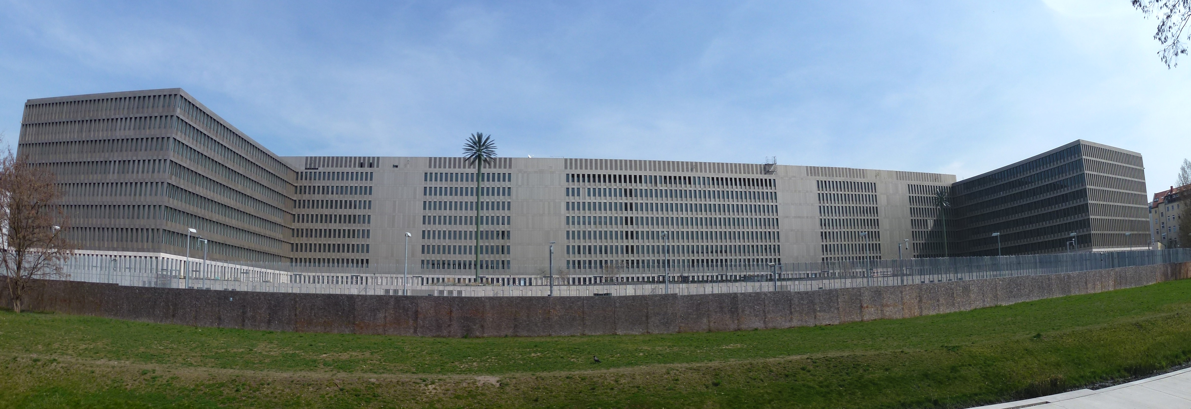 Backside of BND building in Berlin-Mitte